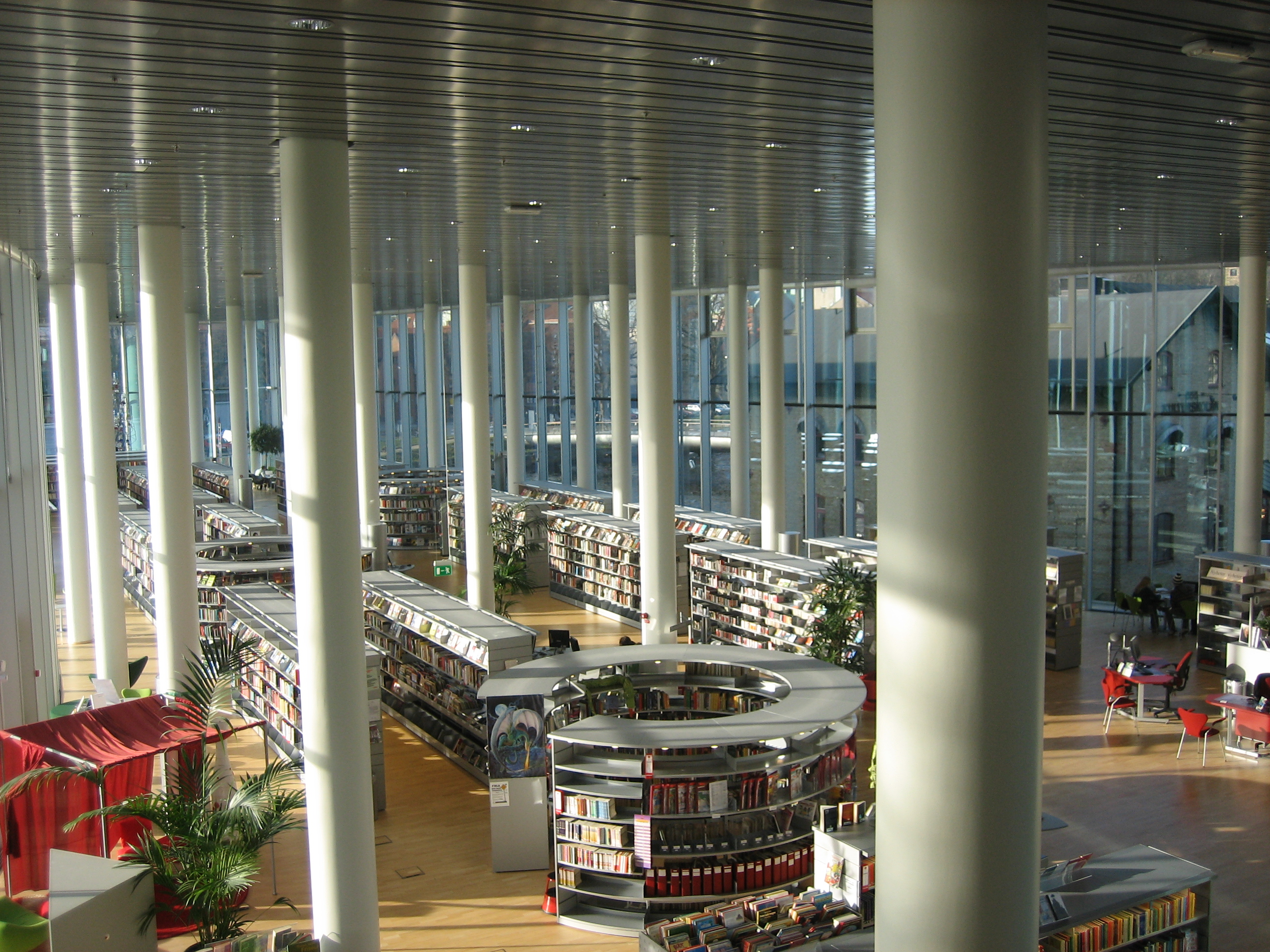 Interior view from new public library in Halmstad.